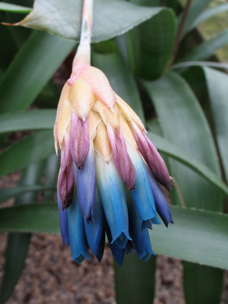 Quesnelia seideliana, in cultivation at the Botanical Garden of Heidelberg, Germany.